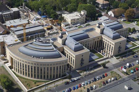 Budapest, district XIV, Hungary, aerial photography Uzsoki hospital